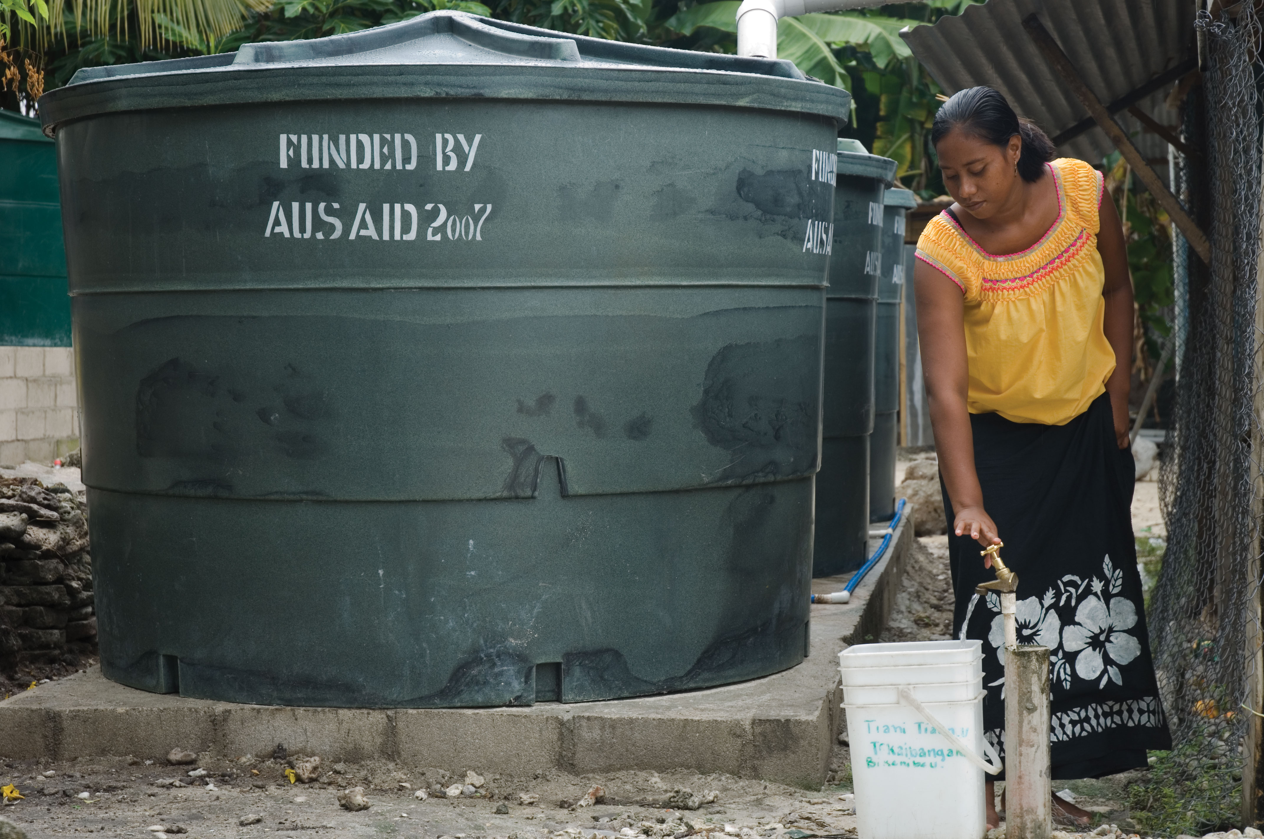 Kiribati. Managing fresh water supplies is a serious business in many Pacific island countries. Maria Kaburoro collects water from a tank funded by AusAID. Photo: Lorrie Graham for AusAID. To request copyright use and access to hi-res versions of this photo